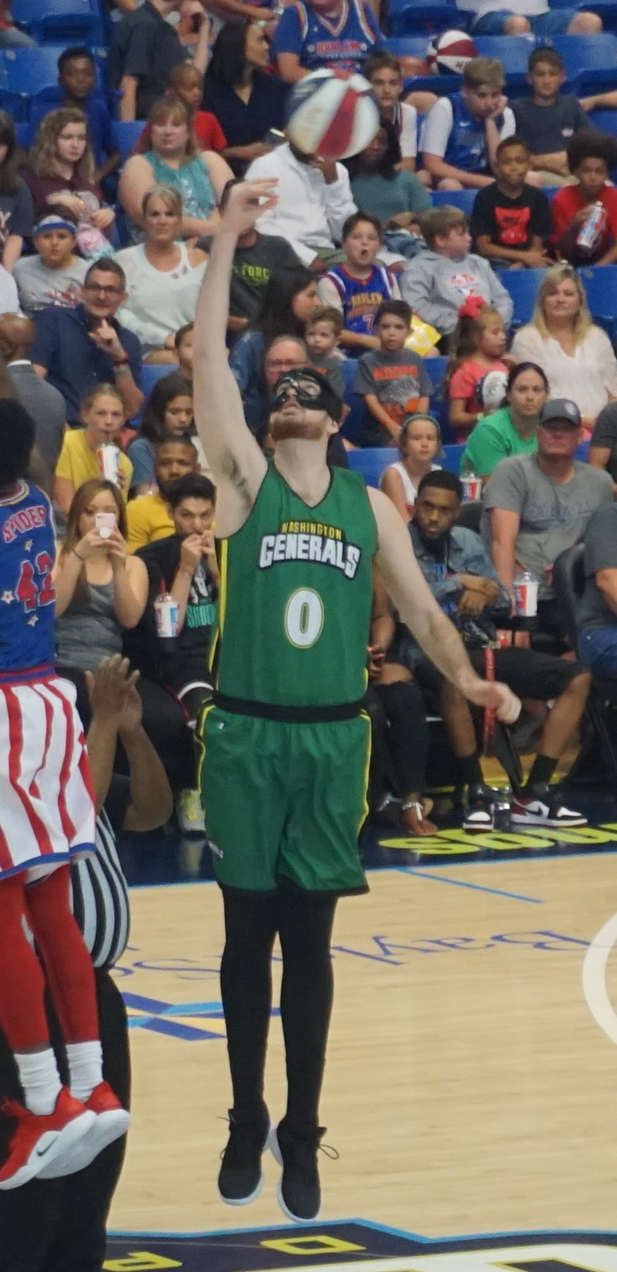 The opening tip of the Washington Generals vs. Harlem Globetrotters basketball game at College Park Center in Arlington, Texas (United States).